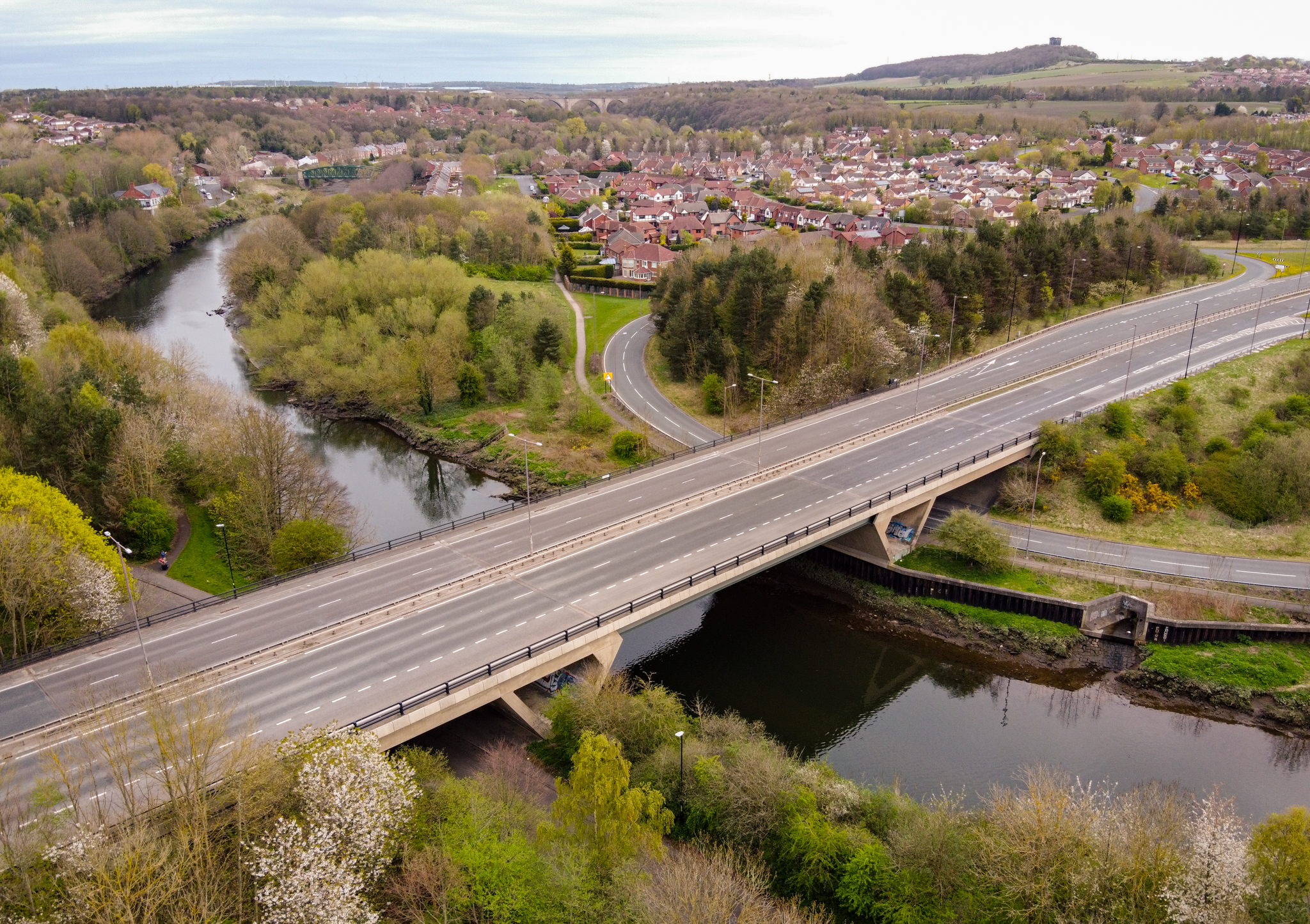 Chartershaugh Bridge from the air with Penshaw Bridge, the Victoria Viaduct and Penshaw Monument in the background.